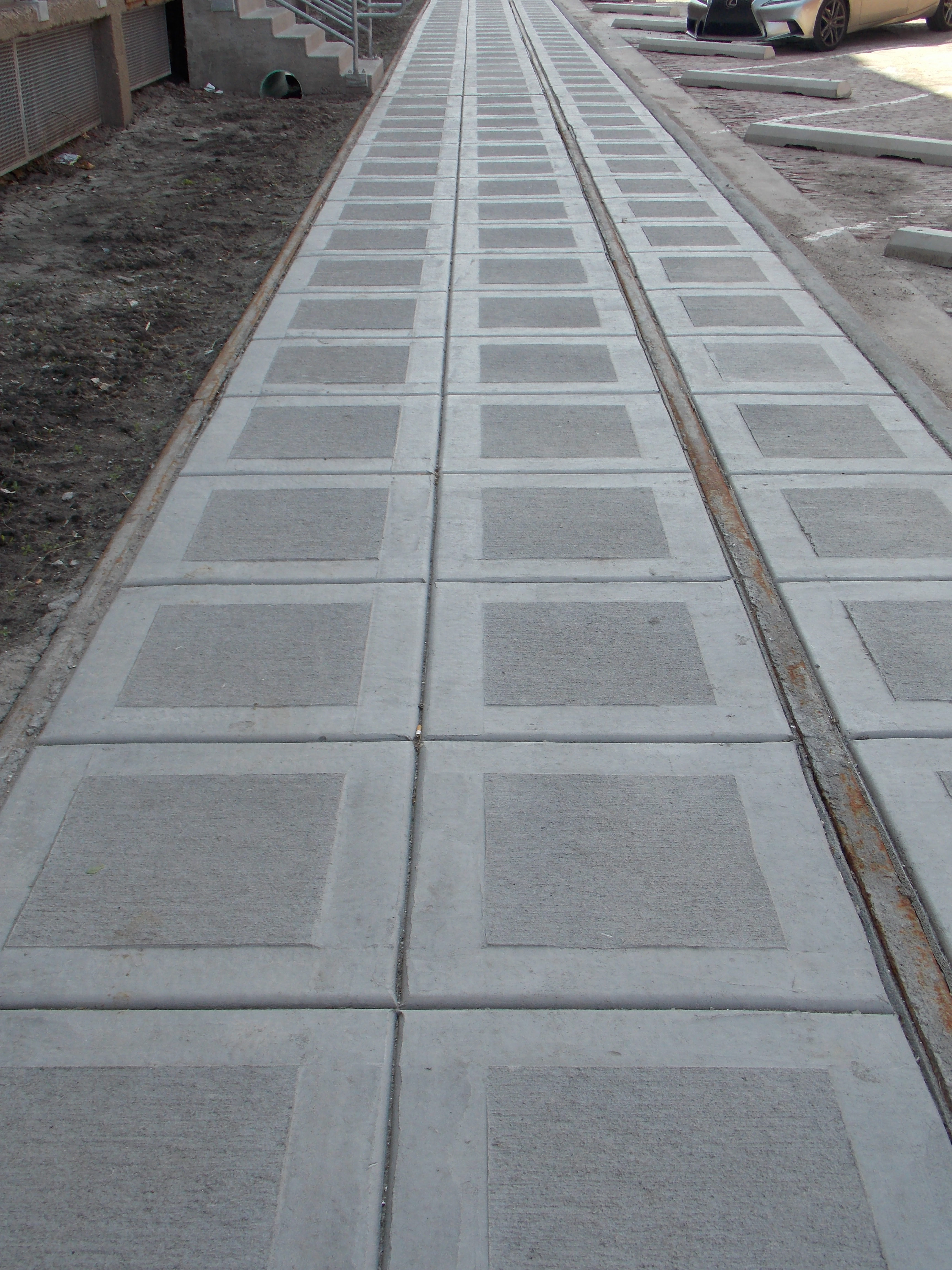 The sidewalk along East 5th Street in Davenport, Iowa. Rail sidings are embedded in the sidewalk. It is located in the Crescent Warehouse Historic District.